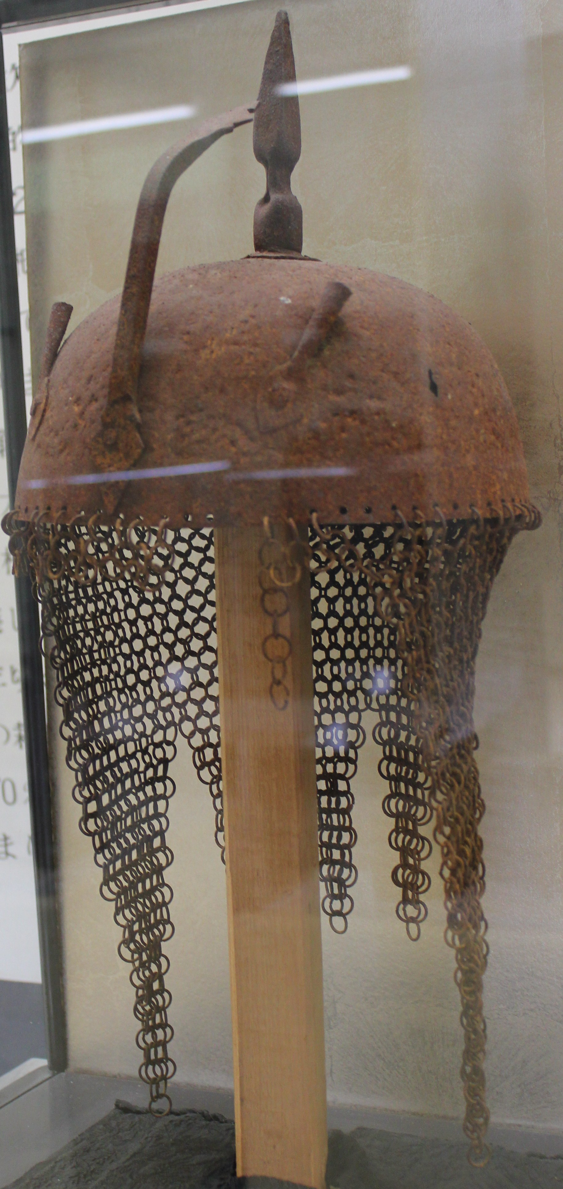 Kulah khud, an Indo-Persian helmet.